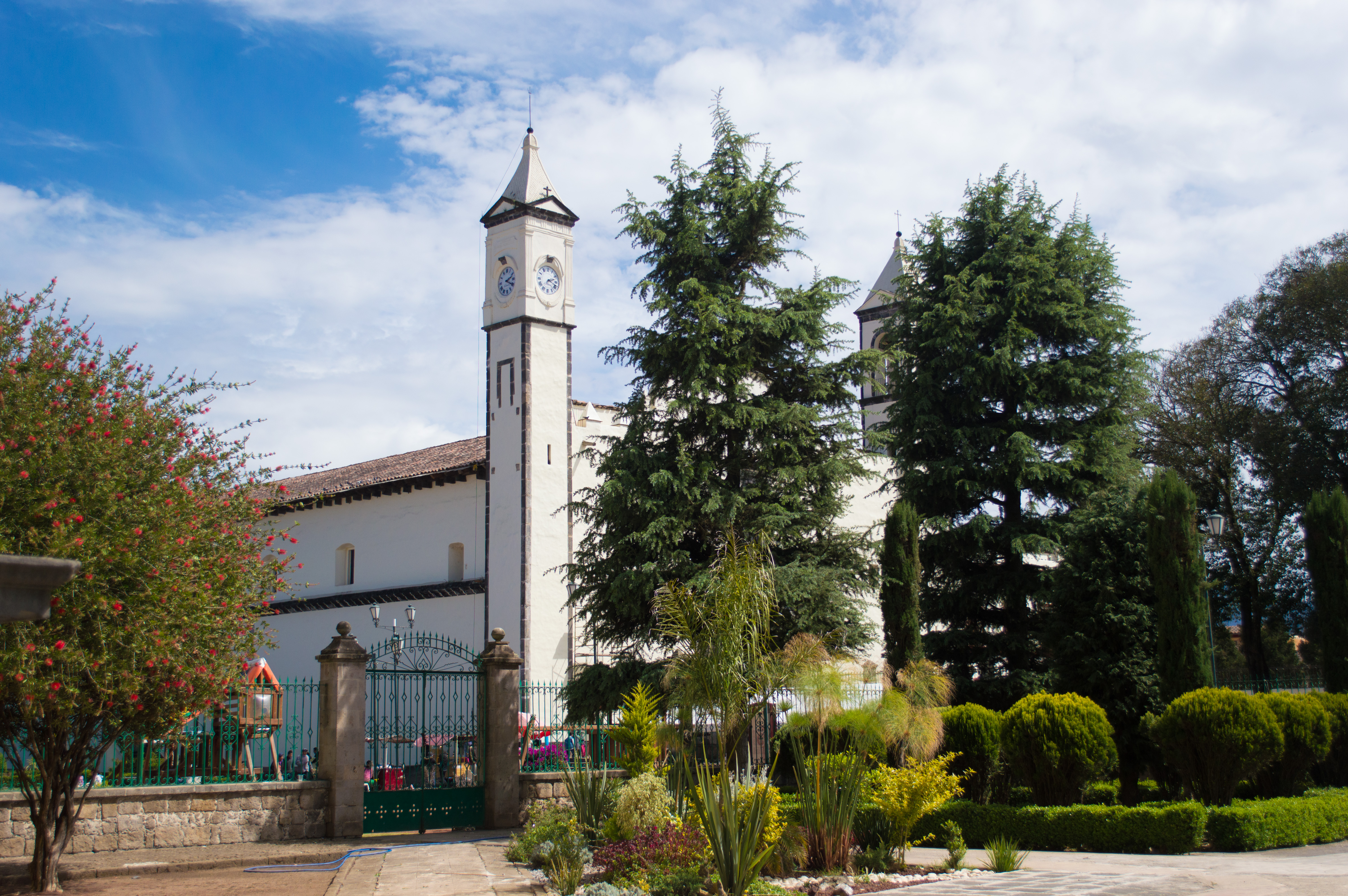 Side view of the Ex-convent of Saint Francis of Asisi in Zacatlan.